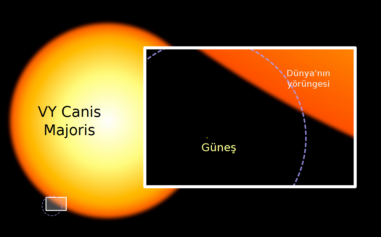 Estimated size of VY Canis Majoris compared to the Sun--Turkish version